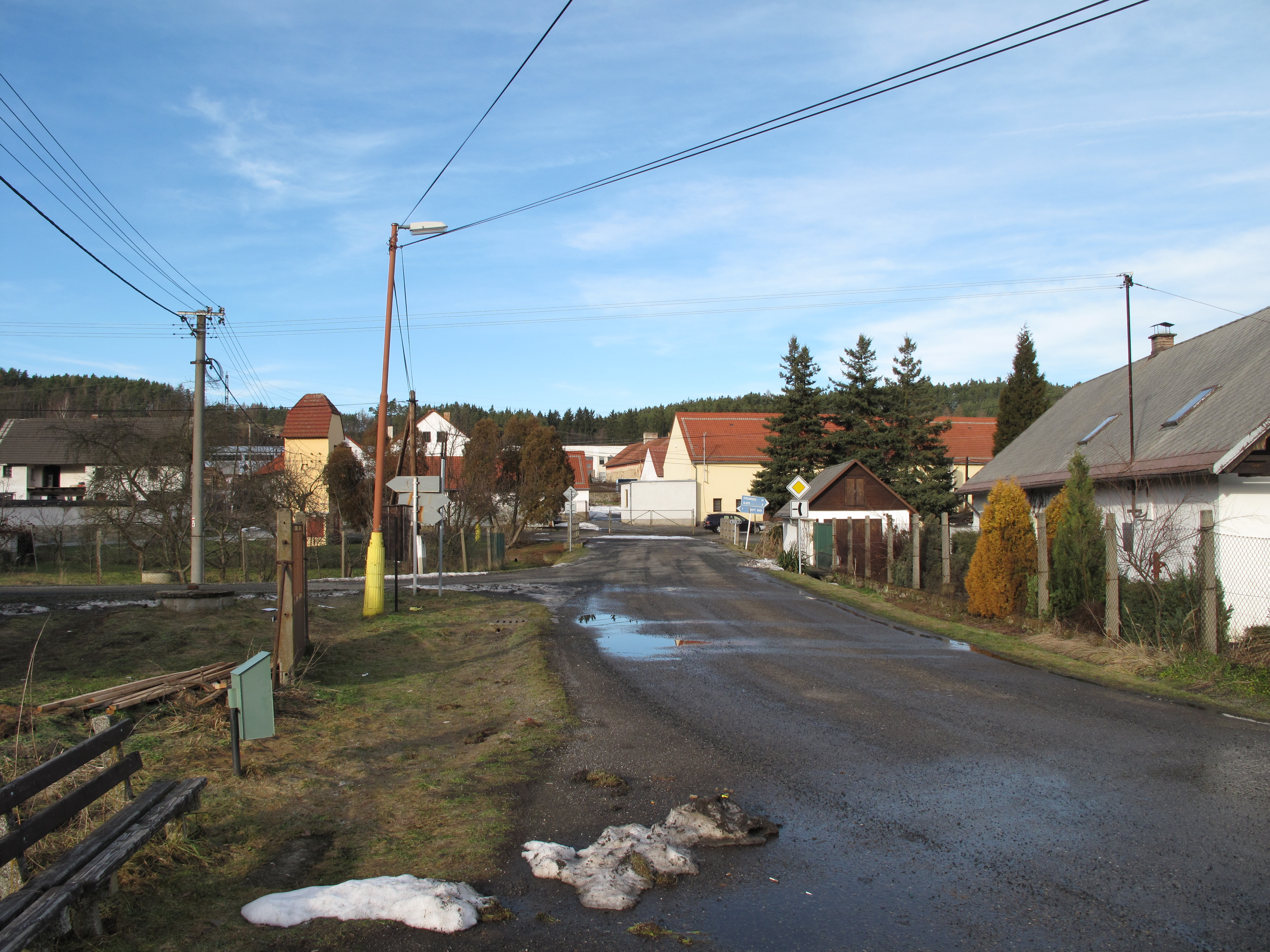 Conecting road in Čím village, Příbram District, Czech Republic.